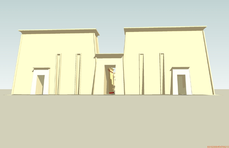 Restoration of the great pylon of the temple of Ptah at Memphis